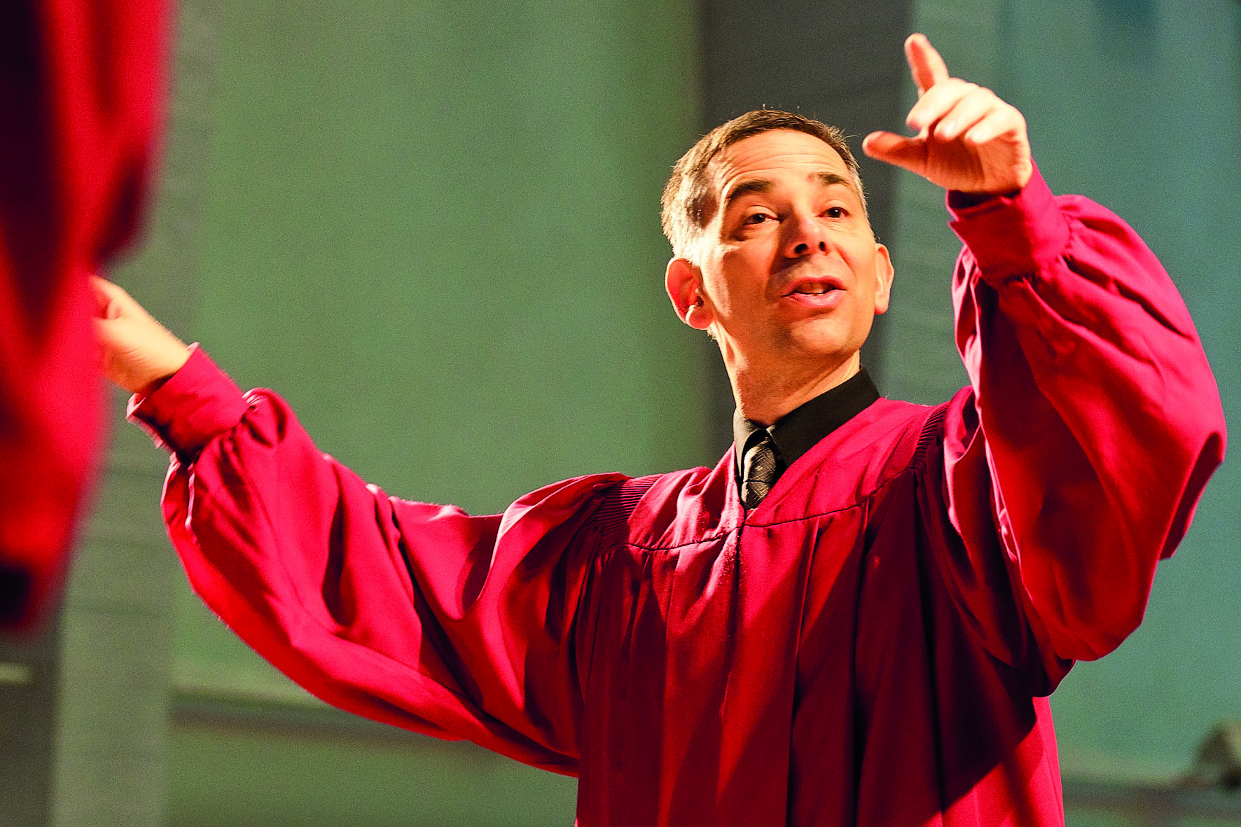 Stefan Schuck, conductor and founder of the NoonSong in Berlin